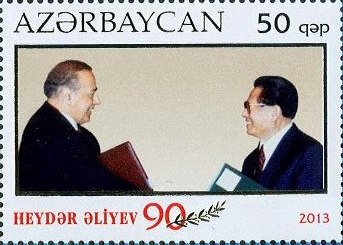 The 90th Ann. of National Leader Heydar Aliyev.